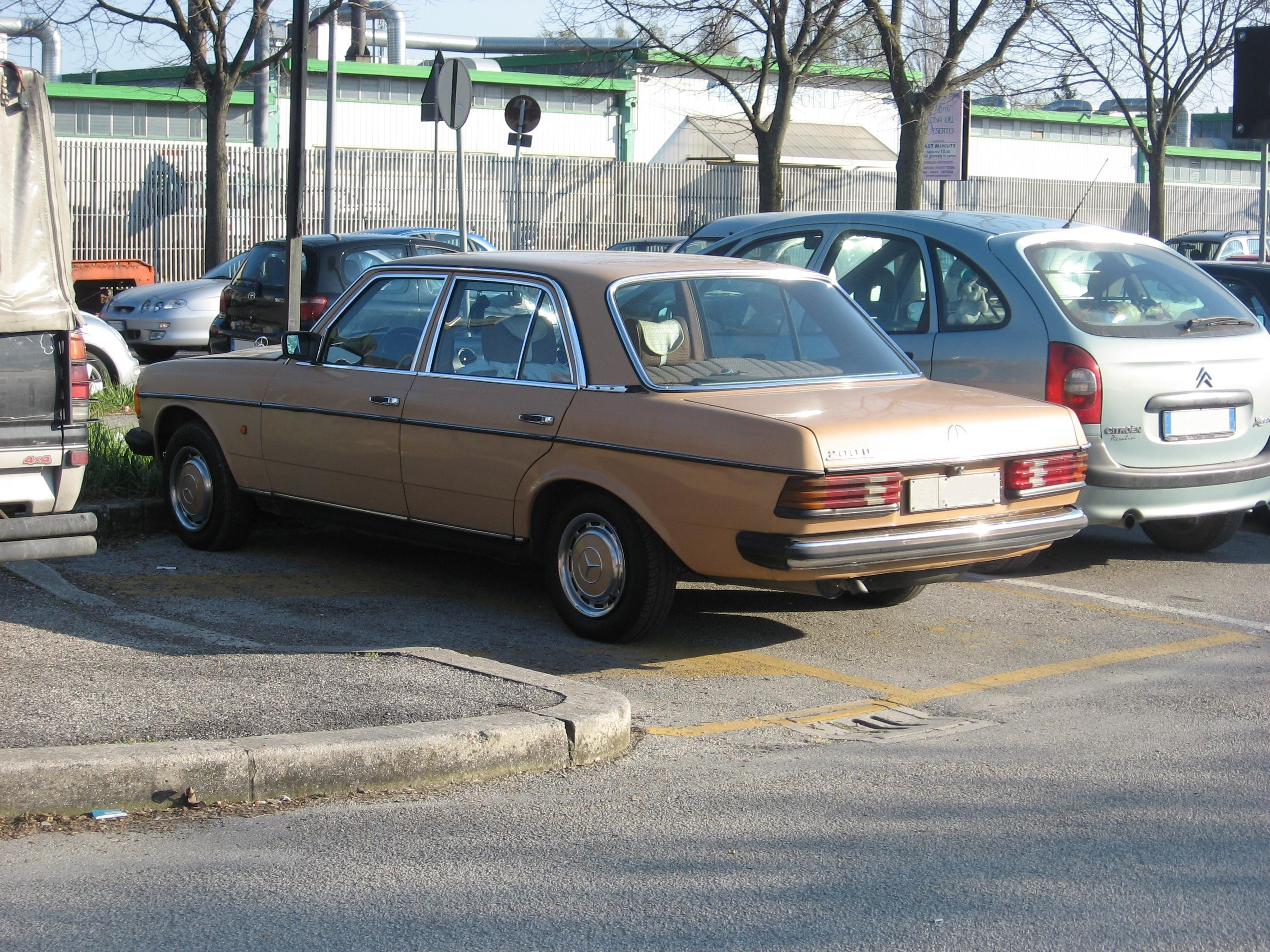 Subject: Mercedes-Benz 200 D (W123) Sedan, rear view Author: Luc106 Date: 18 march 2007 City/Country: Forlì (Italy) Event: Old Time Show I release all rights in the public domain.